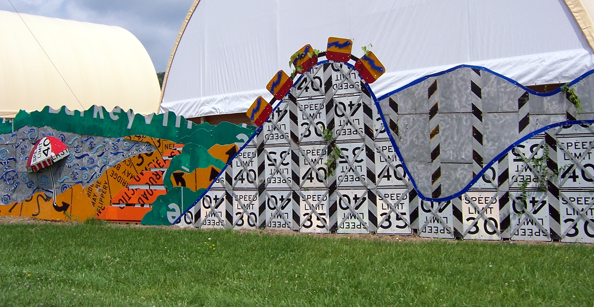 PennDOT facility near Meadsville and Fredericksville, Pennsylvania in Vernon Township, Pennsylvania